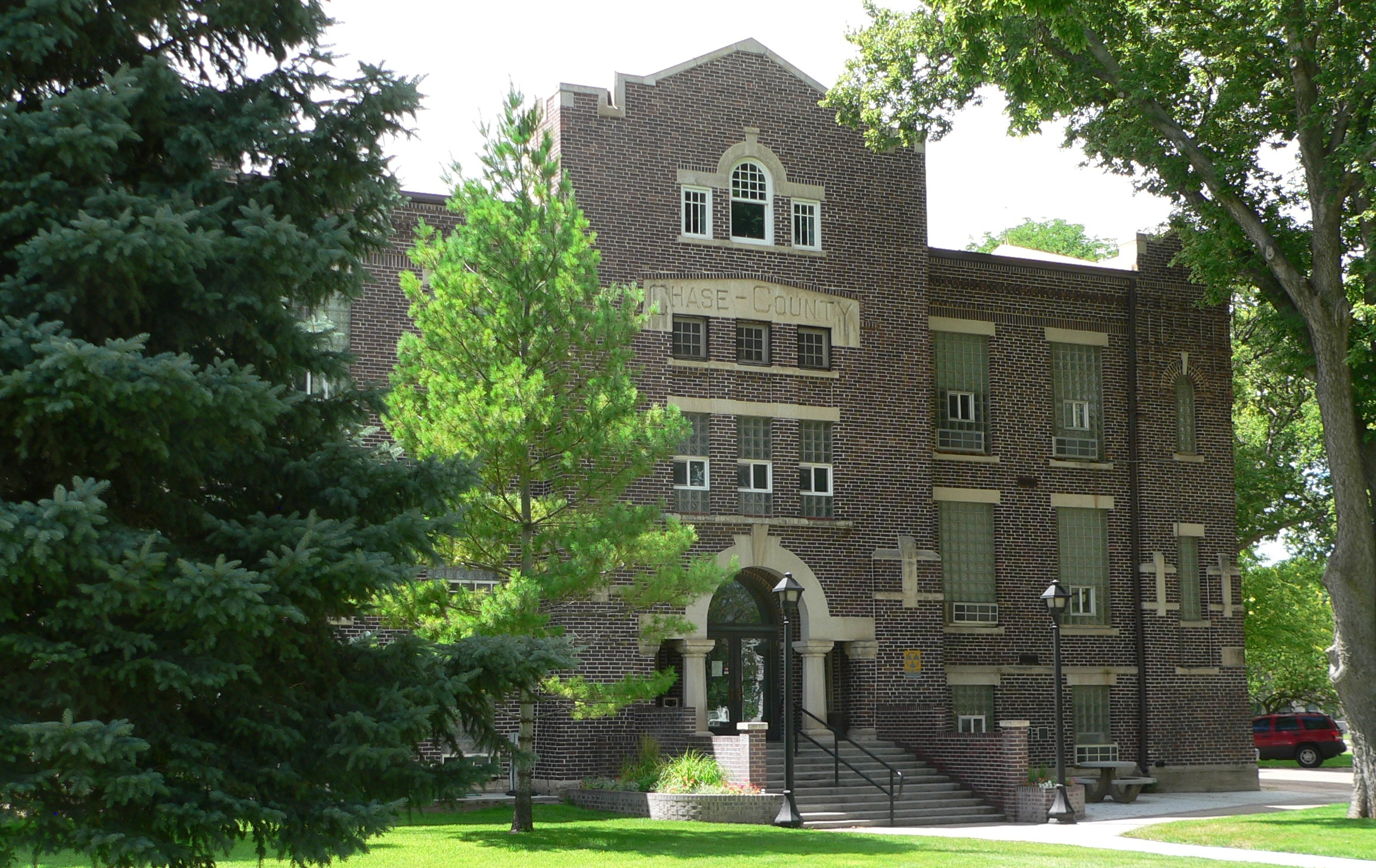 Chase County Courthouse in Imperial, Nebraska; seen from the southeast. The courthouse was constructed in 1911, in a style described as Tudor Revival or Jacobethan. It is listed in the National Register of Historic Places.